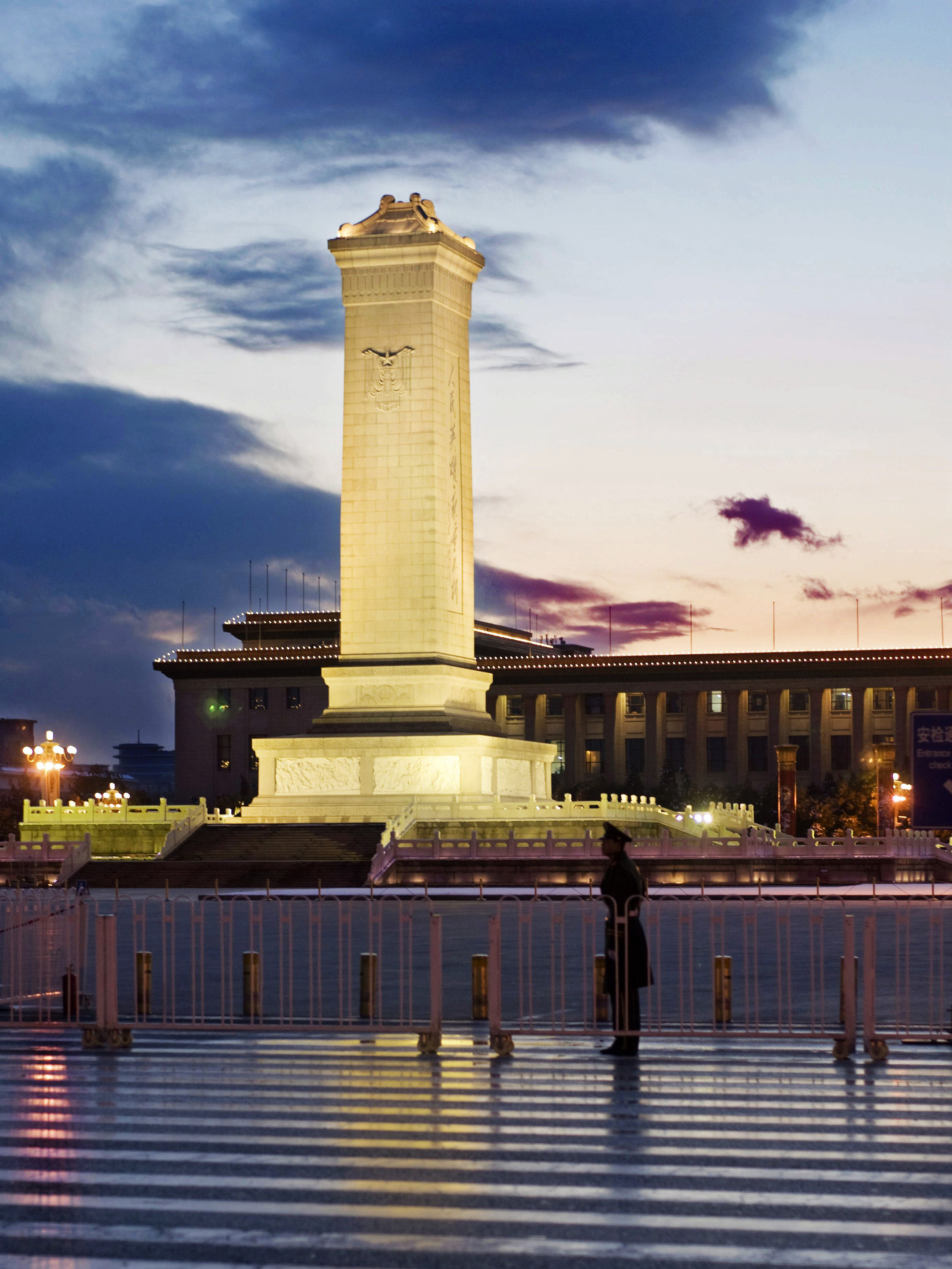 Monument to the People's Heroes and Armed Police with the Great Hall of the People in the background.